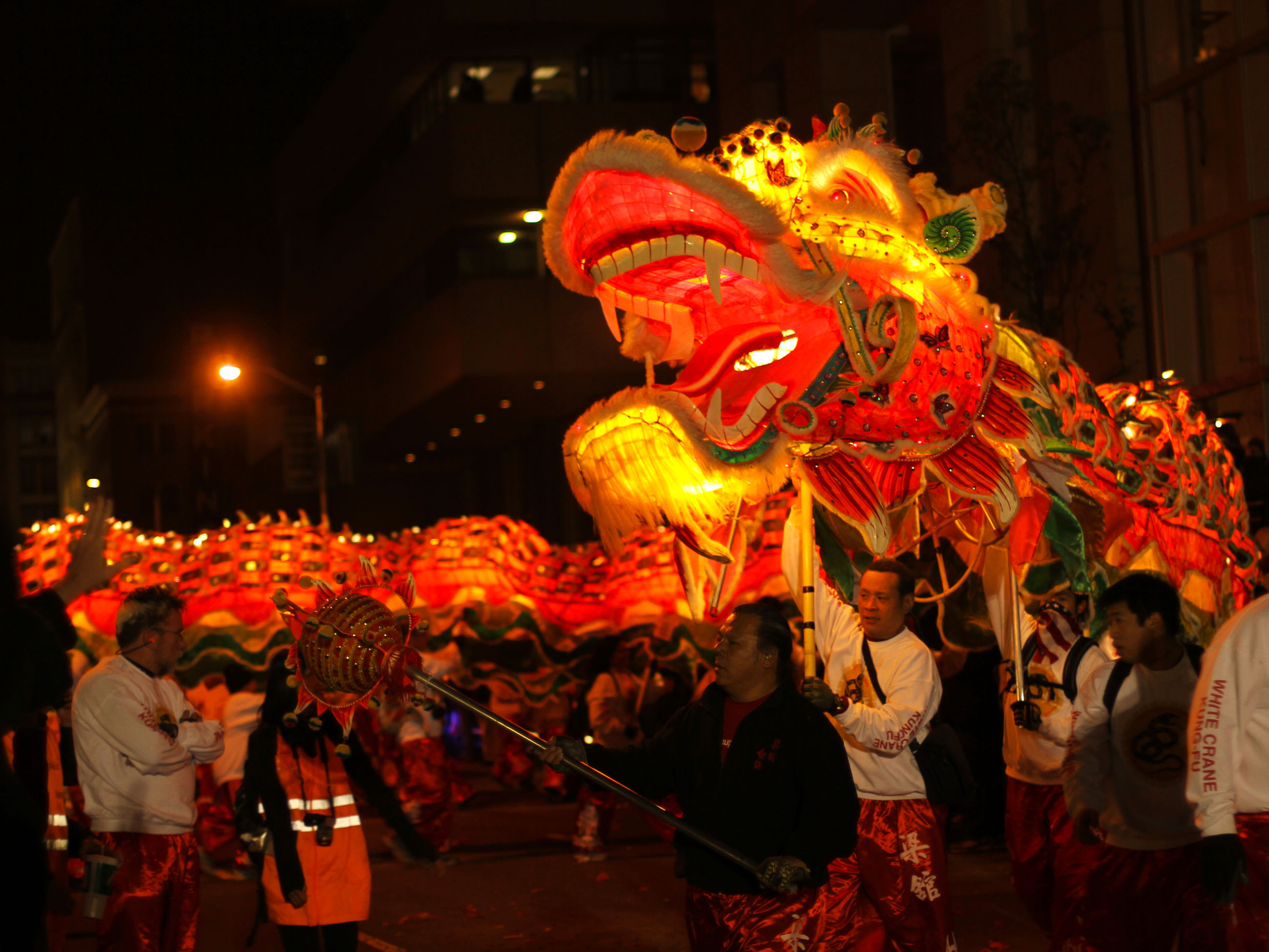 Here comes the big one!